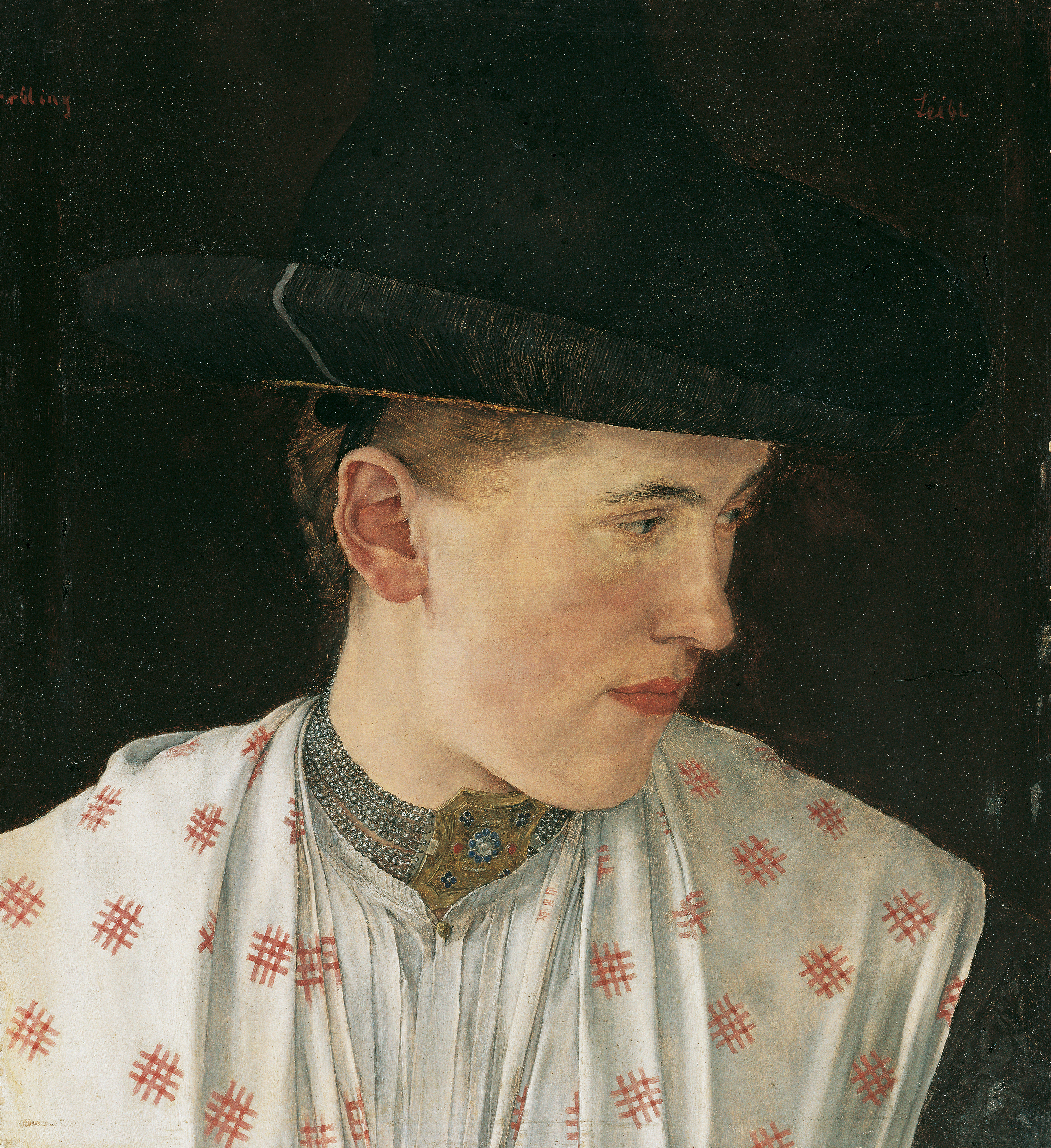 Head of a peasant girl